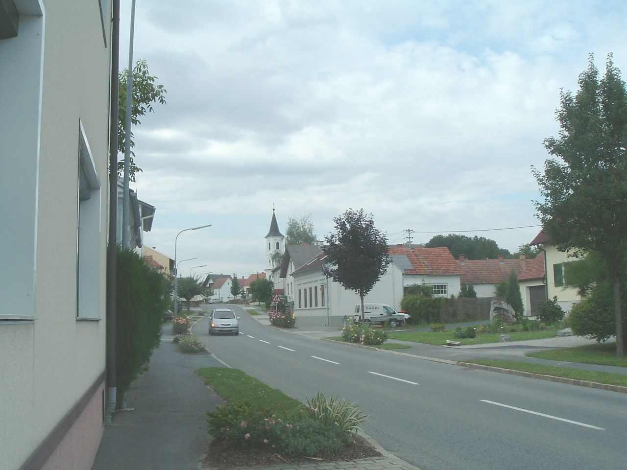 Kleinpetersdorf (Kisszentmihály), Burgenland